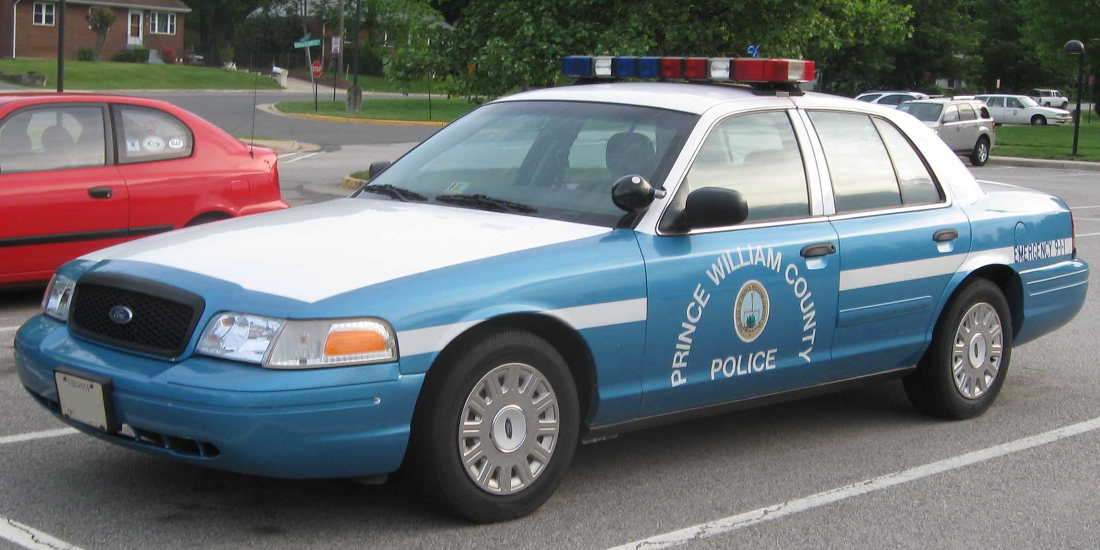 2003-2009 Ford Crown Victoria photographed in Woodbridge, Virginia, USA.